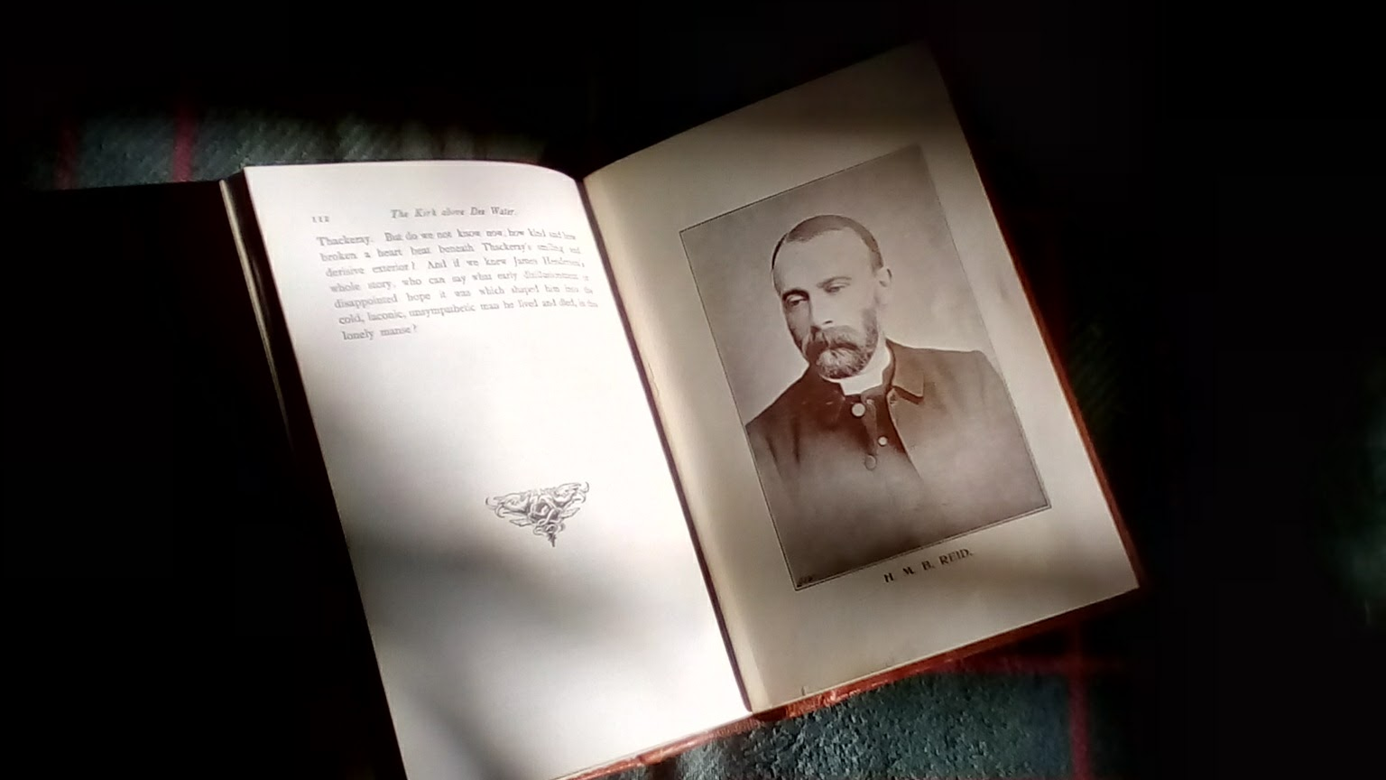 Rev. Professor H. M. B. Reid (1856-1927)